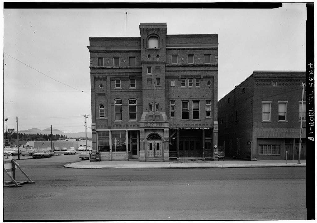 Bozeman City Hall and Opera House.